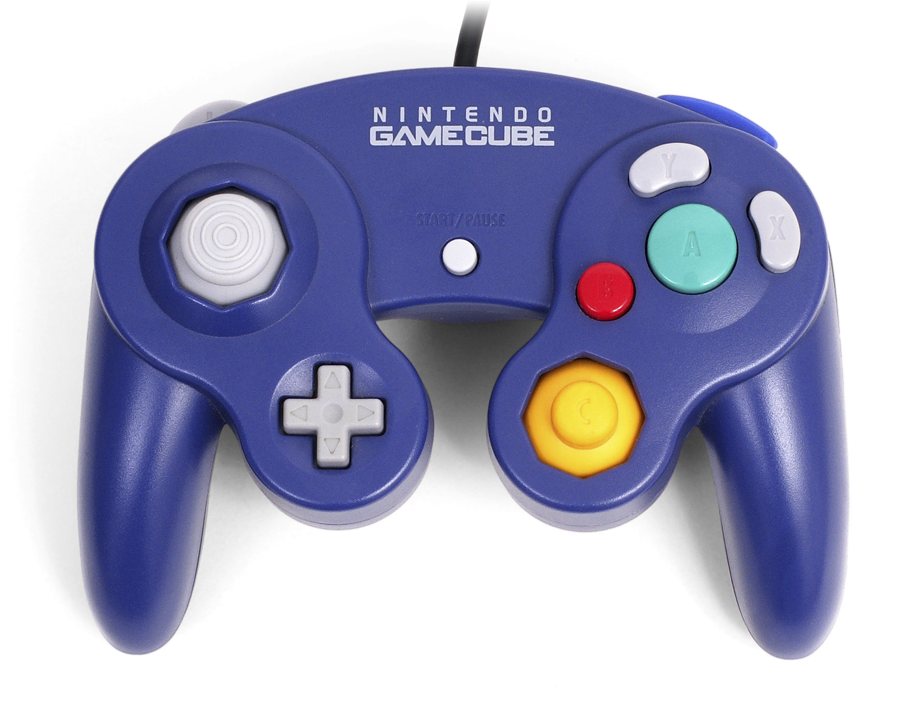 Standard indigo Nintendo GameCube controller.